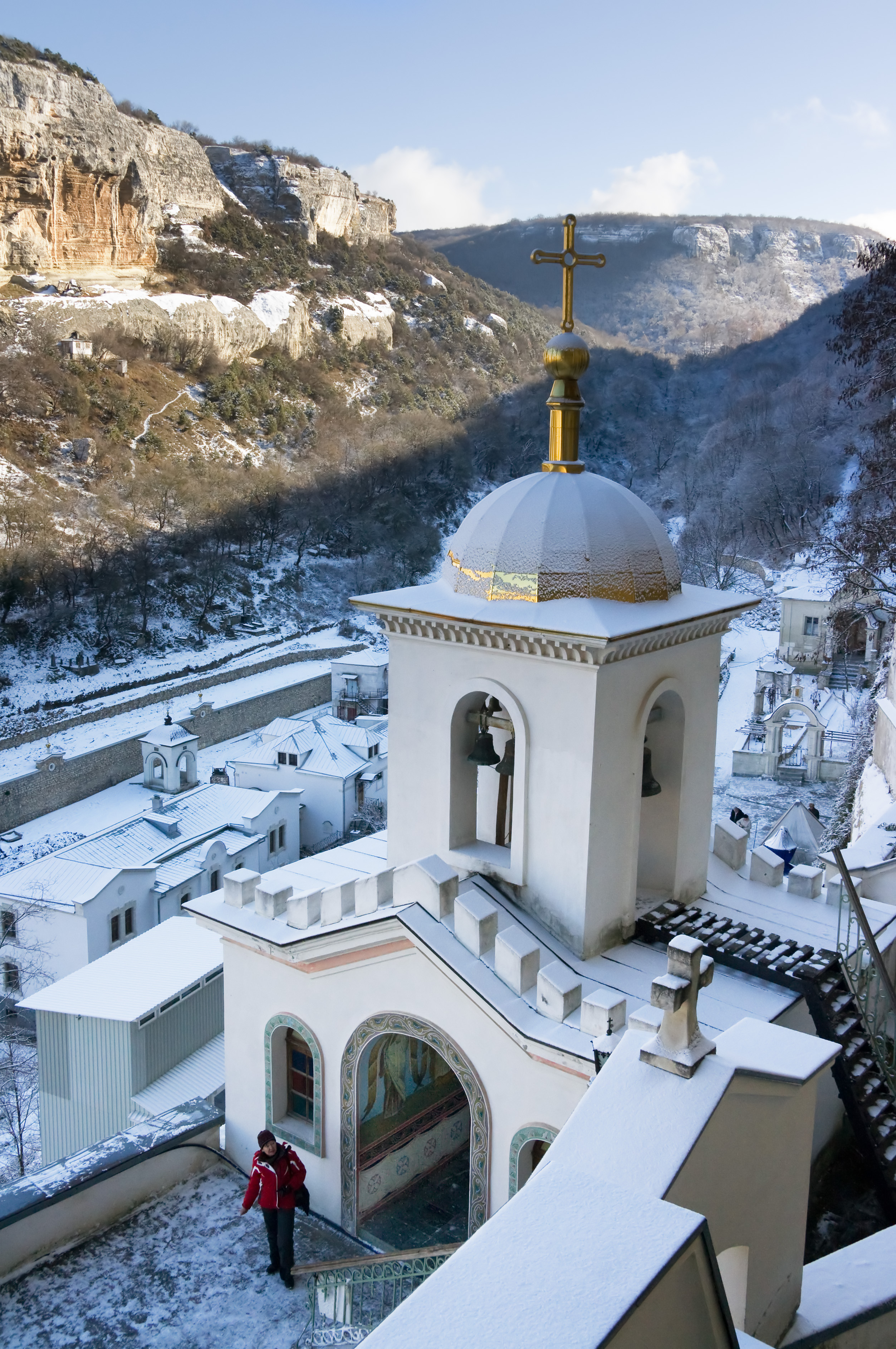 Uspensky Cave Monastery, Bakhchisaray, Crimea